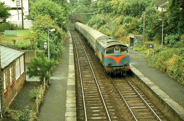 Marino railway station Original description: Marino station See J4079 : Marino station, Northern Ireland Railways. In 1983 Marino station was a particularly unkempt place. NIR was in another of its periods of shortage of rolling stock and (as seen here) used locomotives and coaches, acquired for the Dublin “Enterprise” serviceJ2664 : Bygone days at Lisburn station (2) on stopping suburban trains. This is the 10.00 Bangor – Portadown.